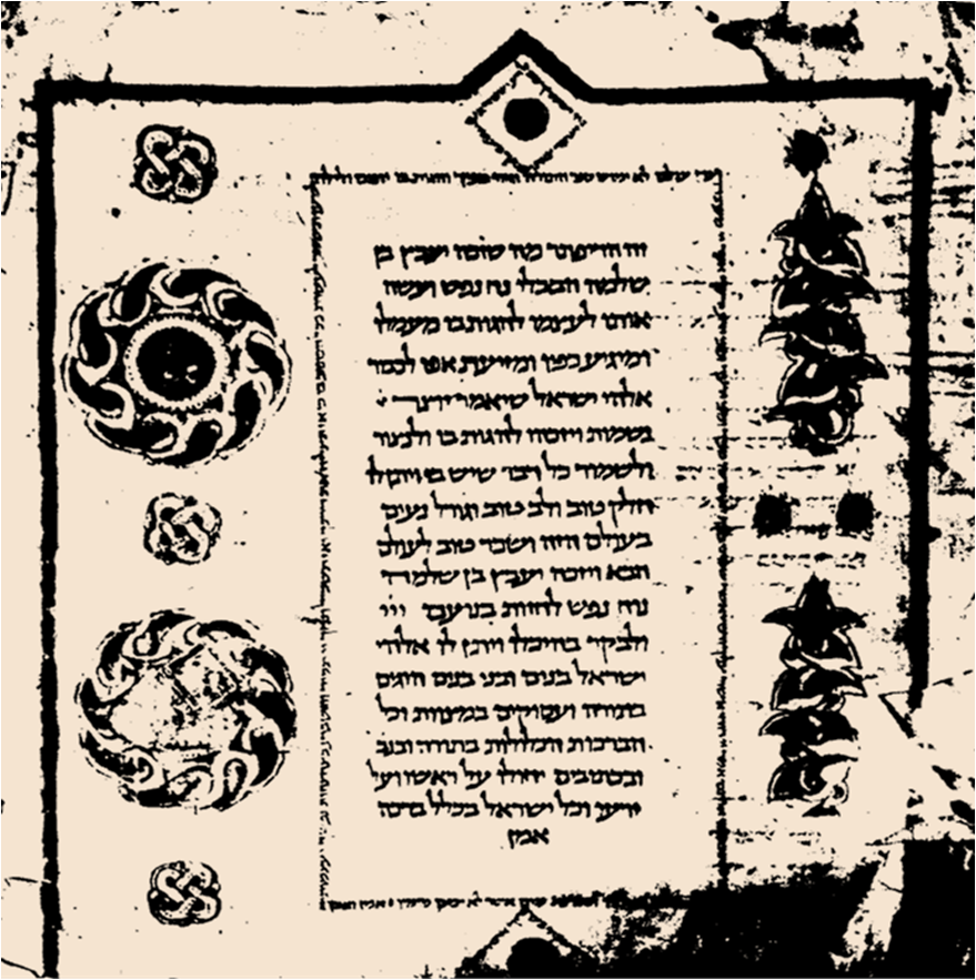 page no. 585 on the Codex Cairensis, (Colophon